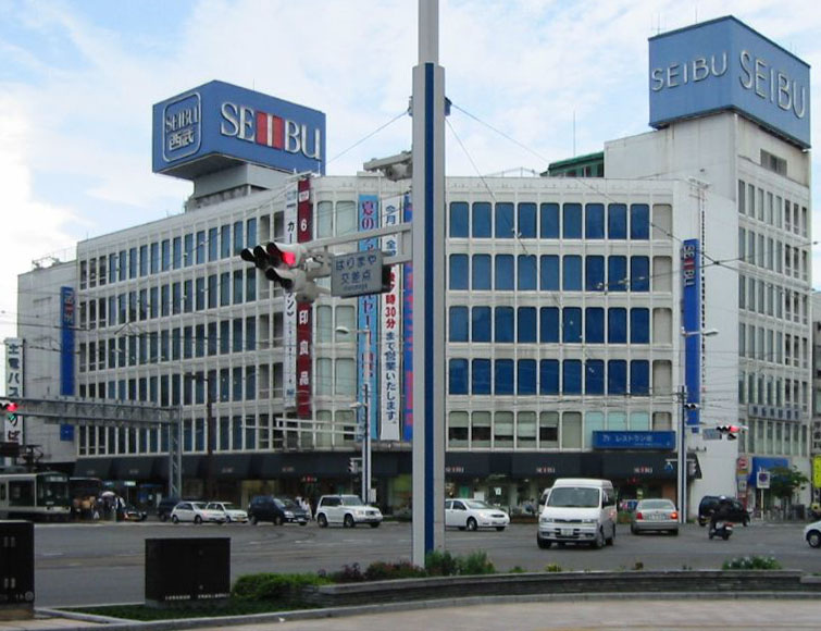 Toden Seibu, Kochi, Kochi Pref., Japan.